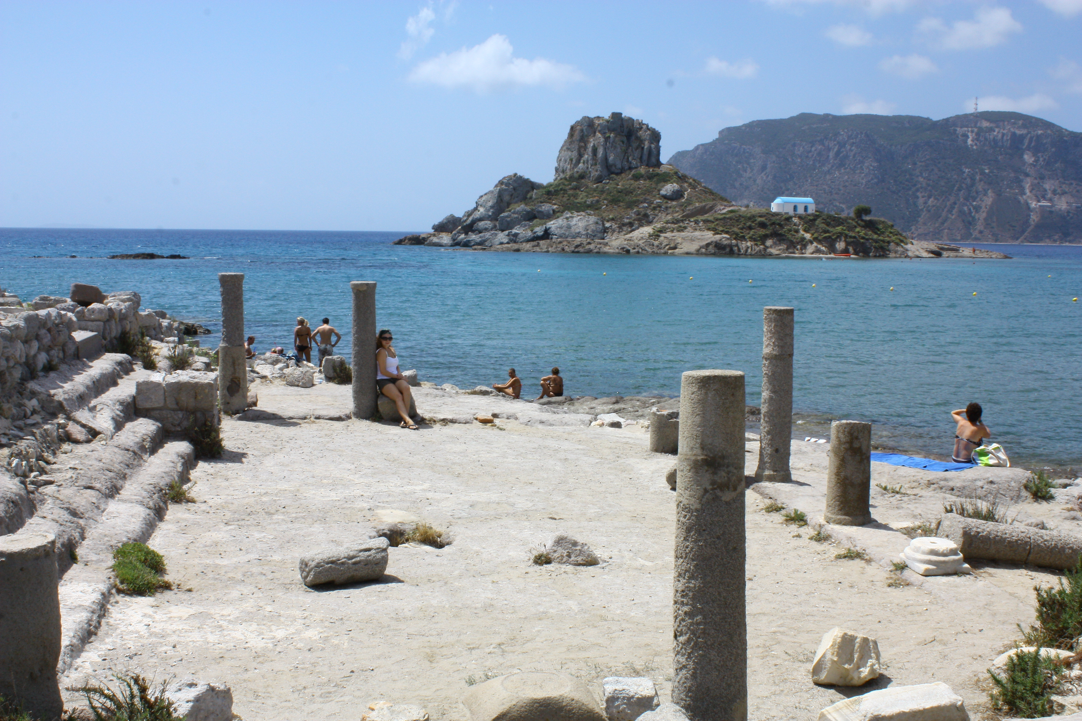 This is a photography of Natura 2000 protected area with ID GR4210008